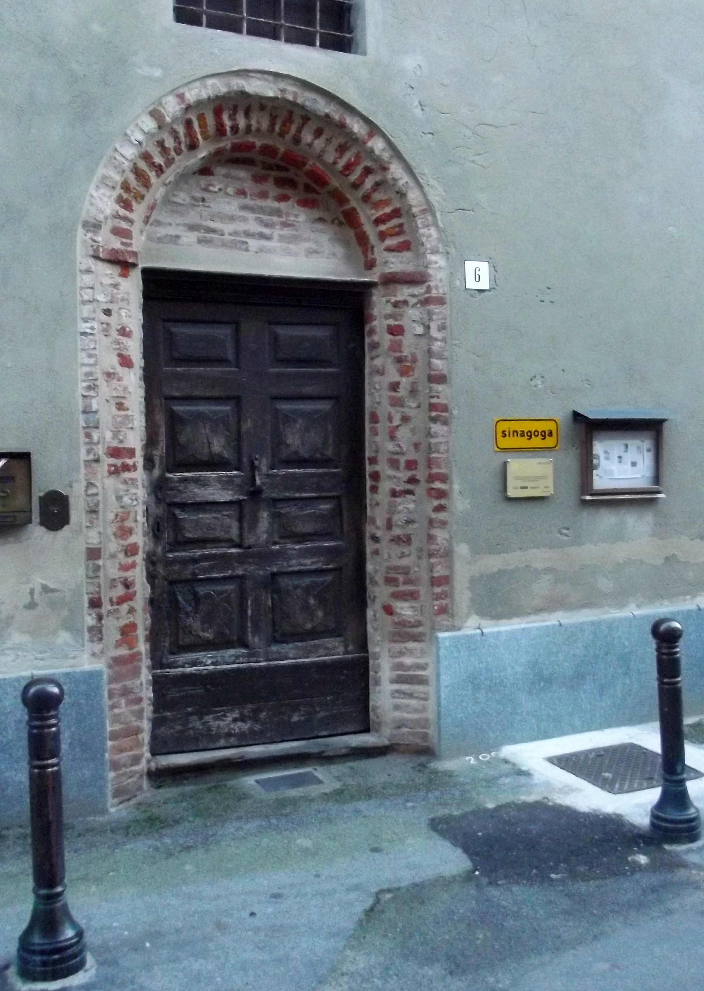 Cherasco (CN, Italy): ancient synagogue entrance